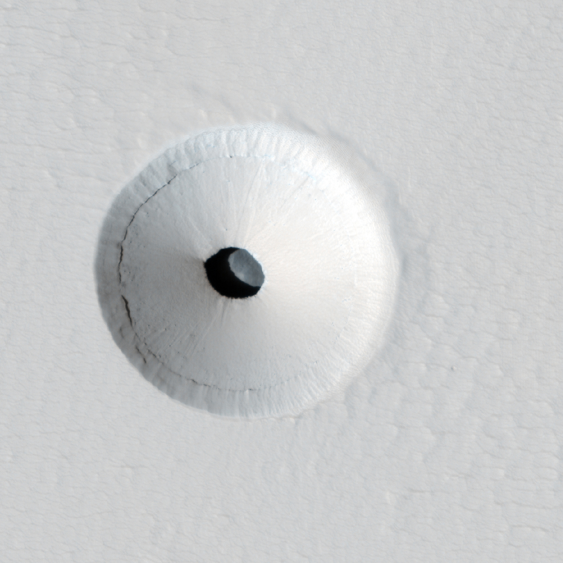 This is a cropped version of a HiRISE image of a lava tube skylight on the martian volcano Pavonis Mons. The original caption for the photo on the HiRISE web site is as follows: Earlier this year, the CTX camera team saw a crater containing a dark spot on the dusty slopes of the Pavonis Mons volcano. We took a closer look at this feature with HiRISE and found this unusual geologic feature. The dark spot turned out to be a "skylight," an opening to an underground cavern, that is 35 meters (115 feet) across. Caves often form in volcanic regions like this when lava flows solidify on top, but keep flowing underneath their solid crust. These, now underground, rivers of lava can then drain away leaving the tube they flowed through empty. We can use the shadow cast on the floor of the pit to calculate that it is about 20 meters (65 feet) deep. The origin of the larger hole that this pit is within is still obscure. You can see areas where material on the walls has slid into the pit. How much of the missing material has disappeared via the pit into the underground cavern? Later this year, HiRISE will acquire a second image to create a stereo pair. Seeing this feature in stereo will help us unravel the mystery of its formation. Written by: Shane Byrne (17 August 2011)